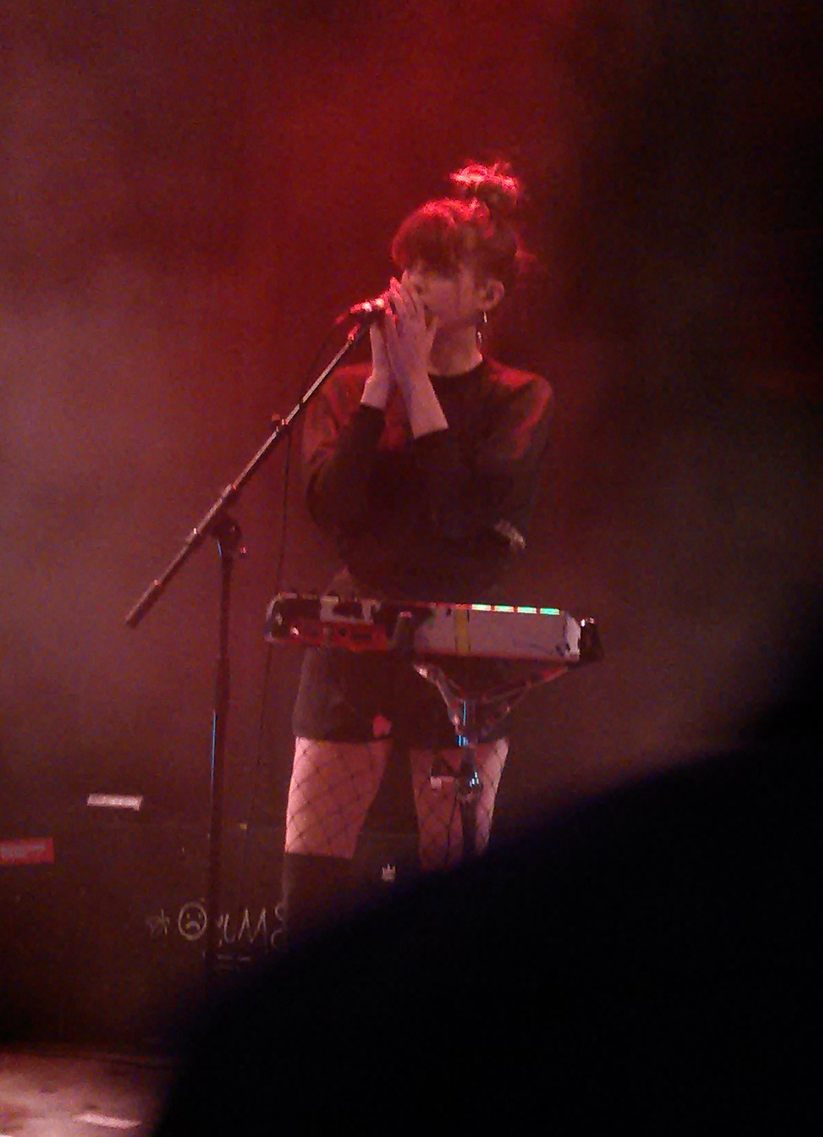 Noga Erez performing in Vienna's Fluc club